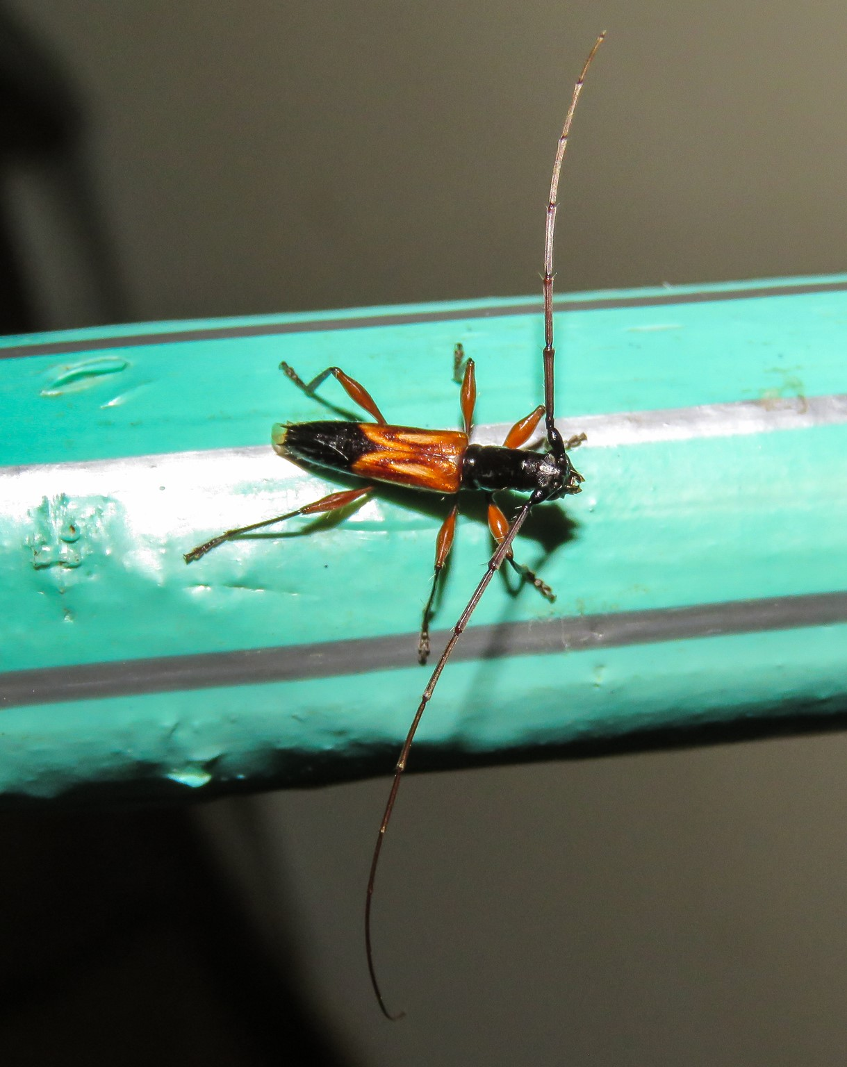 Hexoplon speciosum. Species of insect.